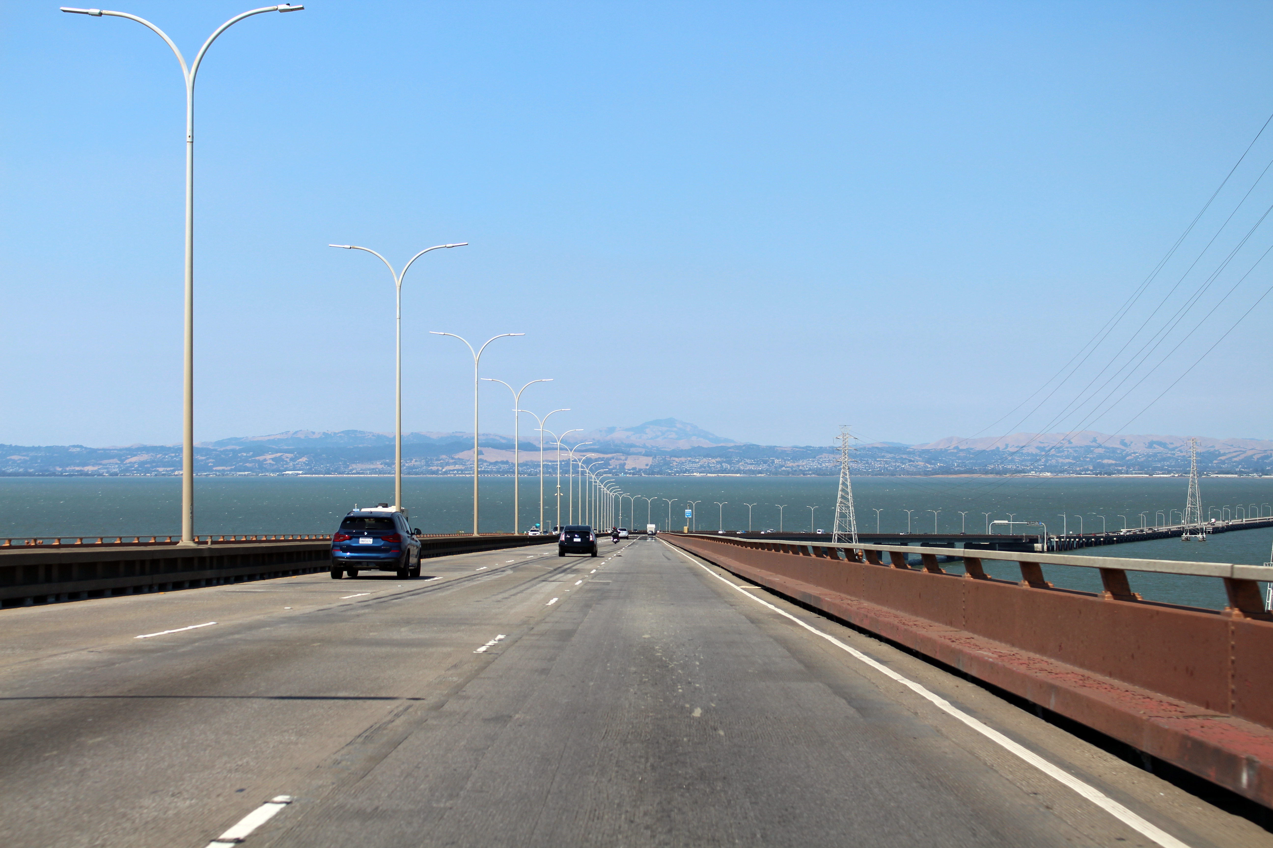 The eastbound view from the high-rise section of the San Mateo-Hayward Bridge (California State Route 92). Photographed by user Coolcaesar on July 19, 2020.